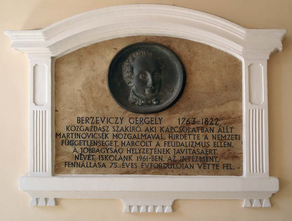 Relief of Gergely Berzeviczy (Sculptor: Péter Szanyi), Miskolc, Hungary